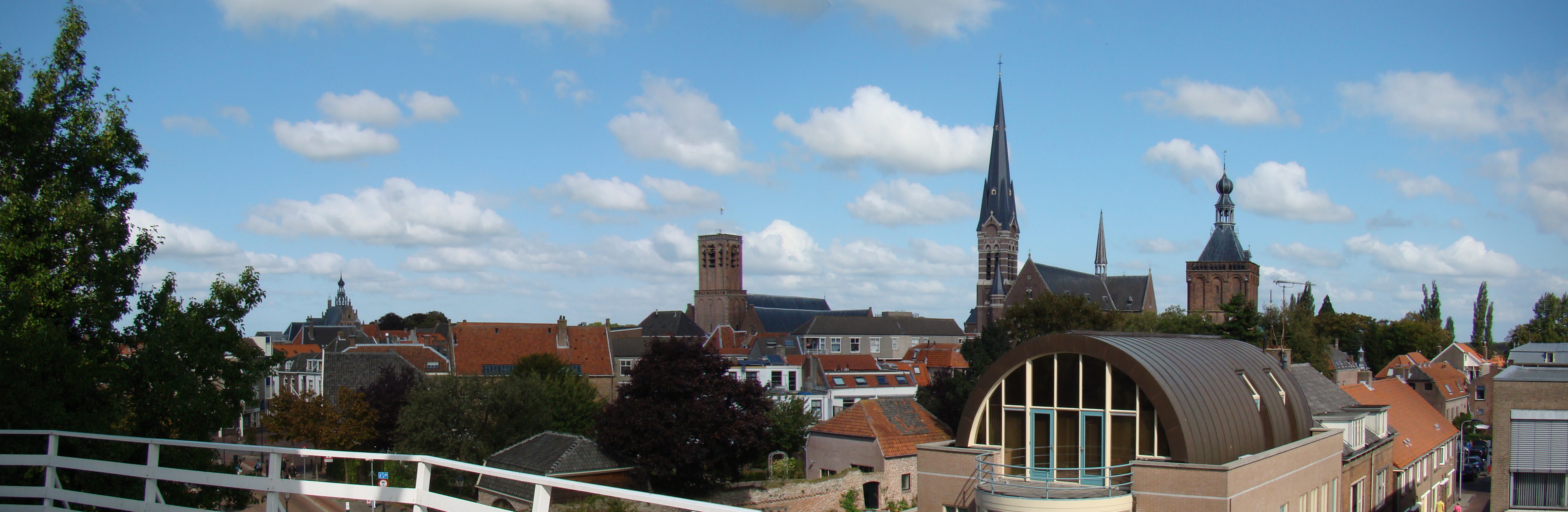 Panoramic view on Culemborg (Netherlands) from windmill "De Hoop"